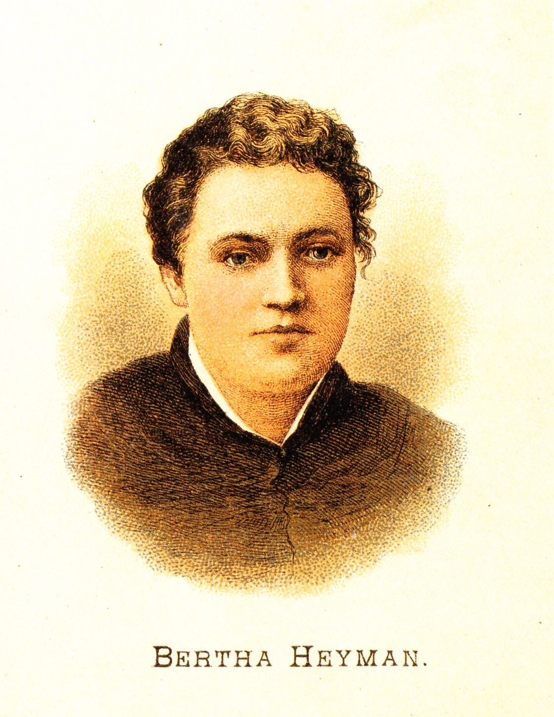 Cigarette card depicting notorious 19th century American criminal Bertha Heyman.